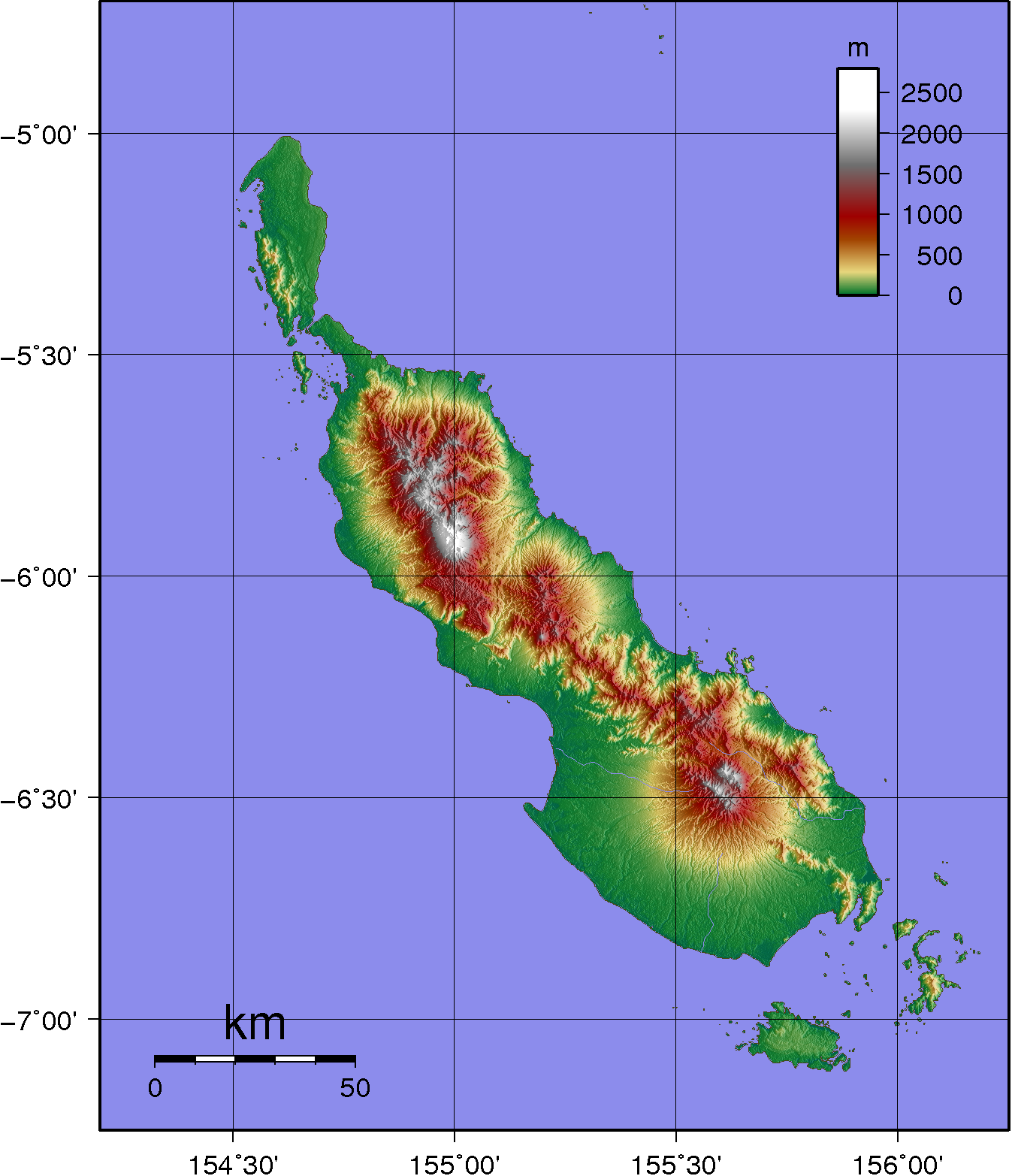 Topographic map of Bougainville